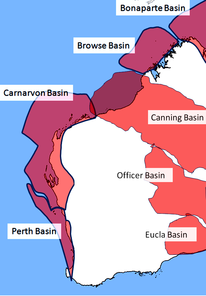 Approximate locations only. shape and size of basins determined by visual inspection of map on page 4 of Energy of Australia 2008 published by the Australian Bureau of Agricultural and Resource Economics (